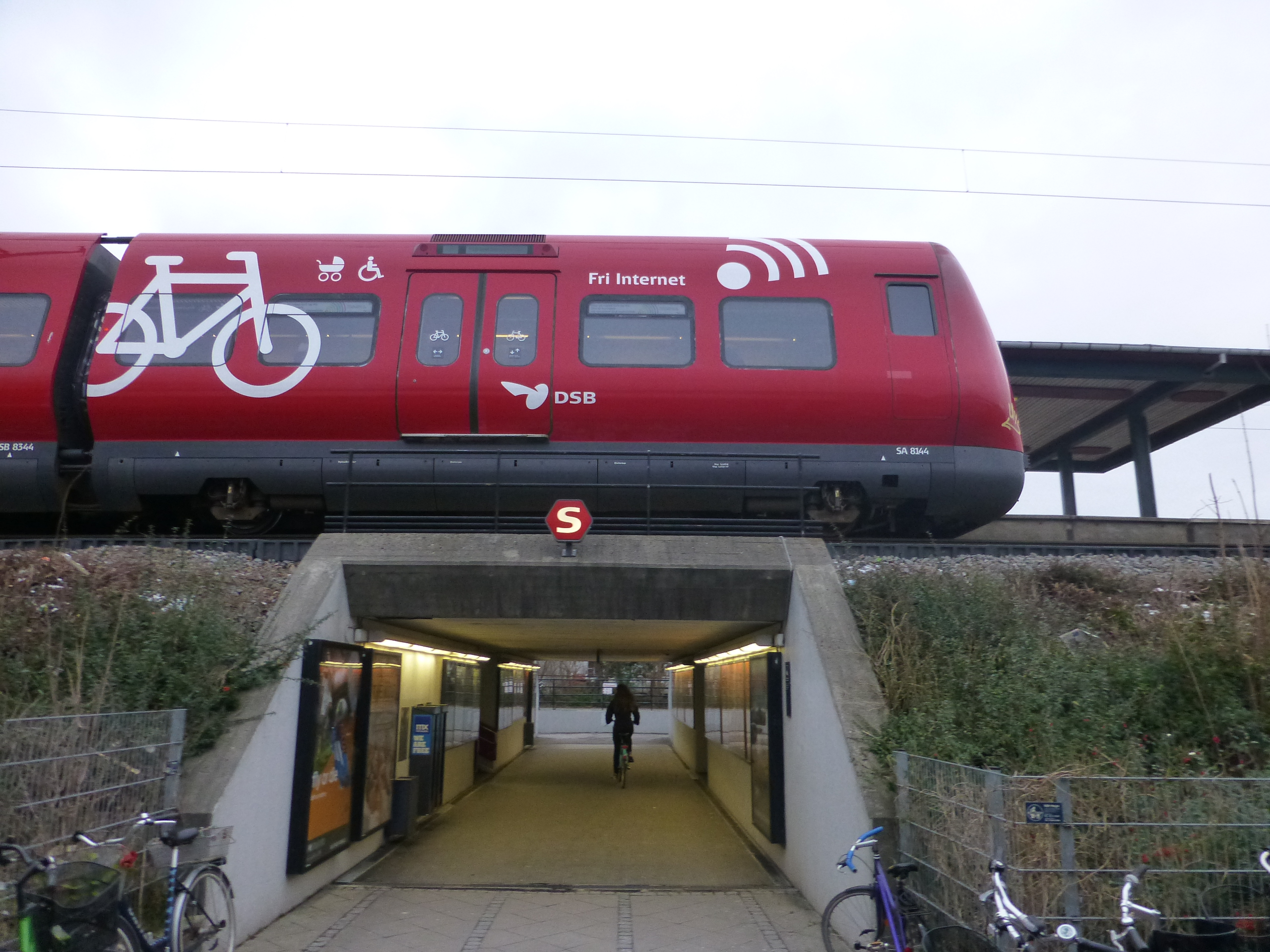 Skovlunde Station, a S-train station on Frederikssundsbanen in Copenhagen. Despite no showing anything the S-train is actually a line C for Klampenborg.